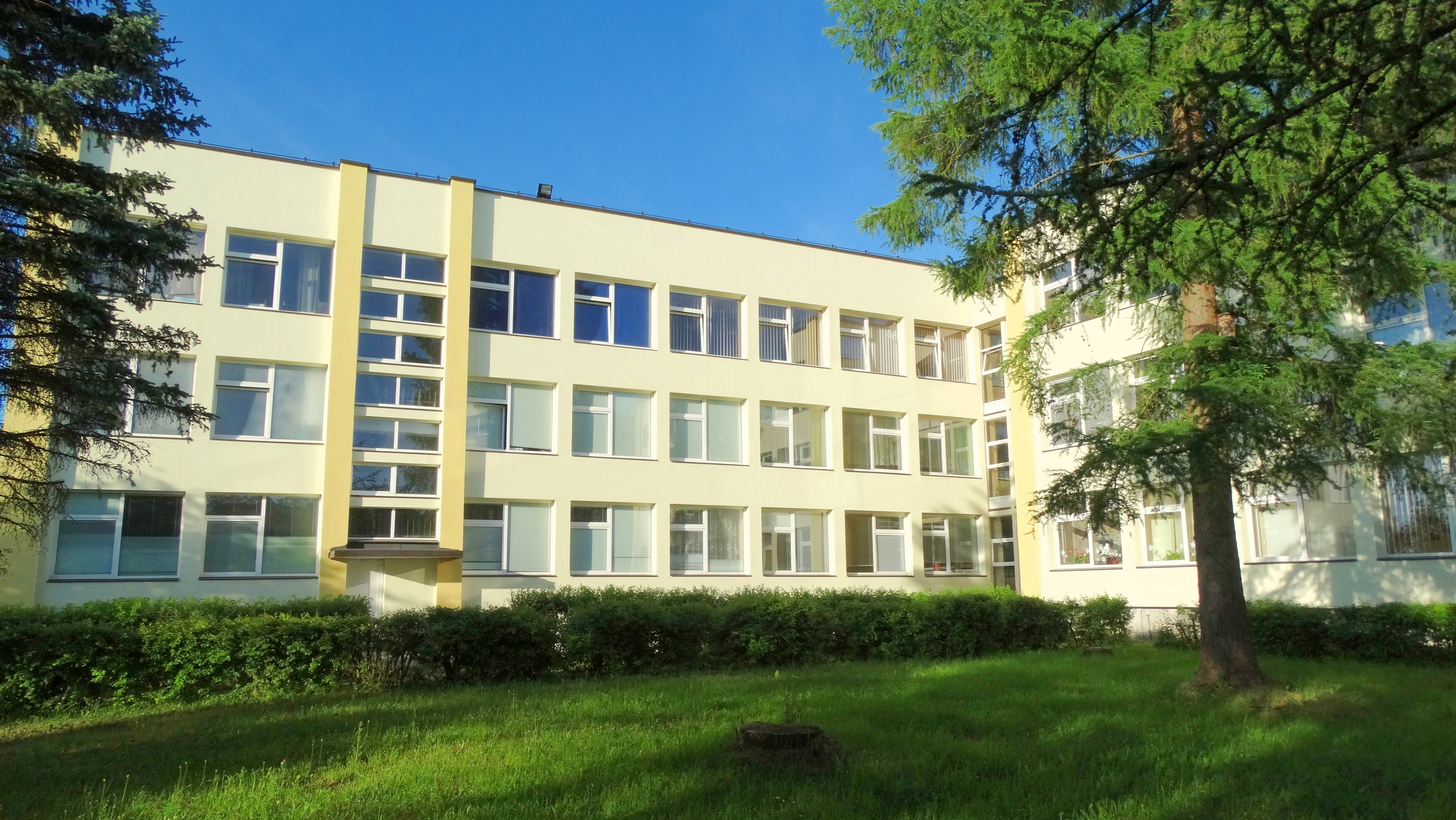 Gymnasium, Mickūnai, Vilnius District, Lithuania